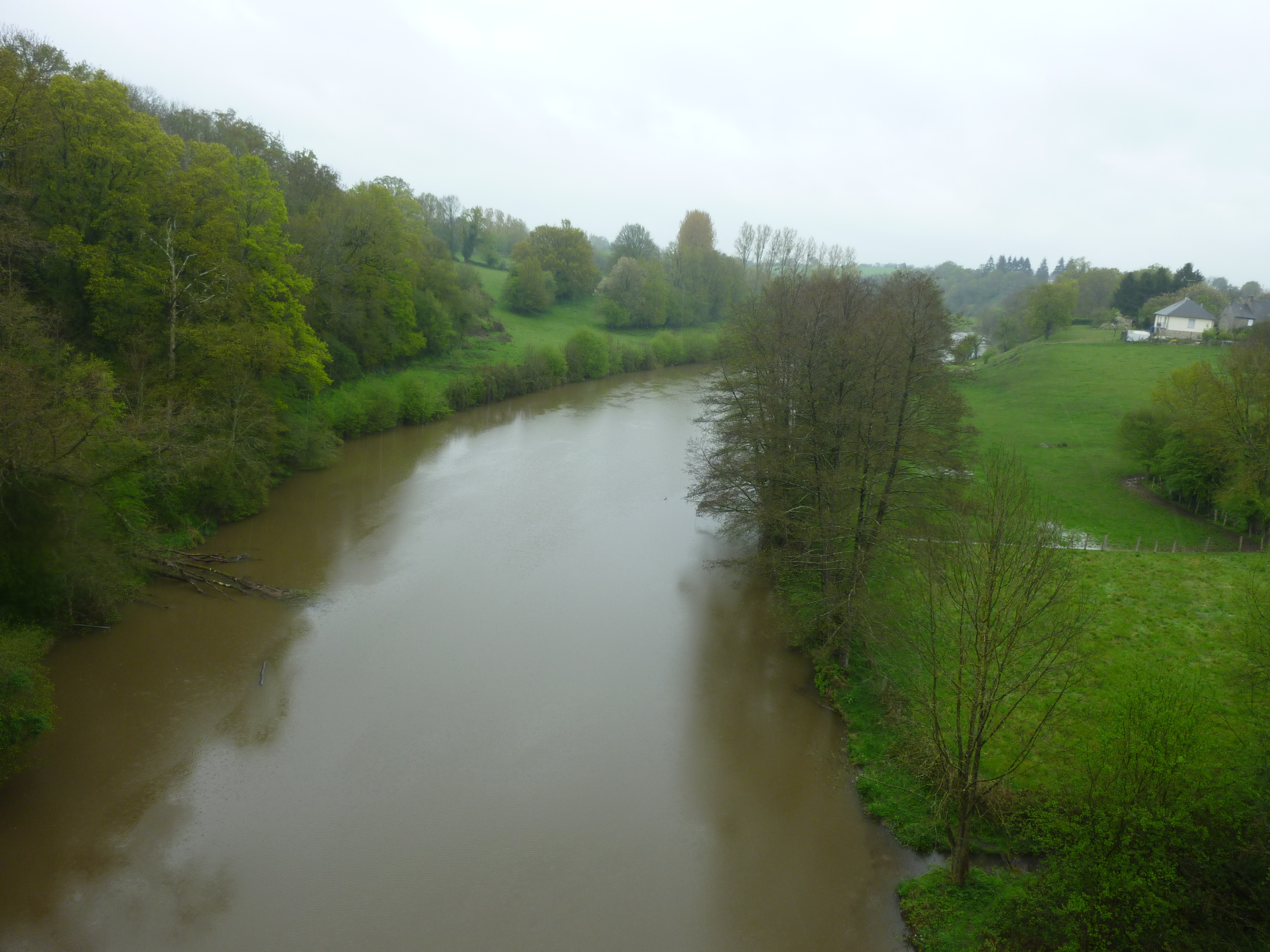 The Mayenne River at Saint-Loup-du-Gast, Mayenne. Picture taken on the viaduc de la Rosserie.